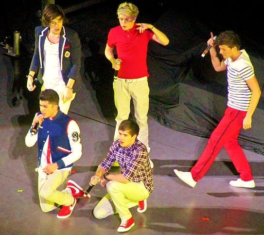 One Direction, Air Canada Centre, Toronto, Ontario,February 26, 2011